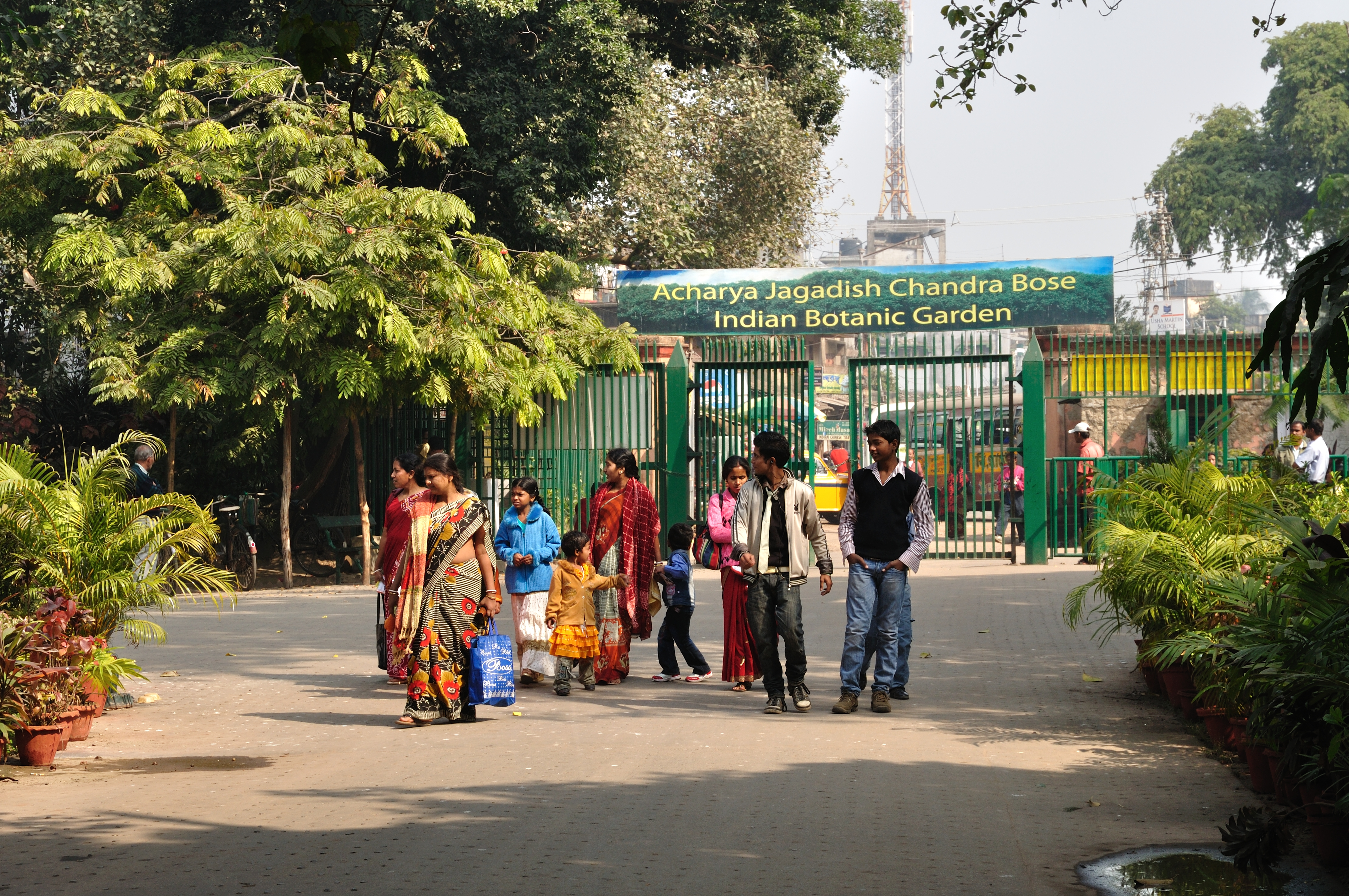 The botanical garden at Howrah, was known as ‘East India Company’s Garden’ or the ‘Company Bagan’ or ‘Calcutta Garden’ and later as the ‘Royal Botanic Garden’ which after independence was renamed as the ‘Indian Botanic Garden’ in 1950. It came under the management of the Botanical Survey of India on January 1, 1963. From June 25, 2009 it is renamed as ‘Acharya Jagadish Chandra Bose Indian Botanic Garden’.